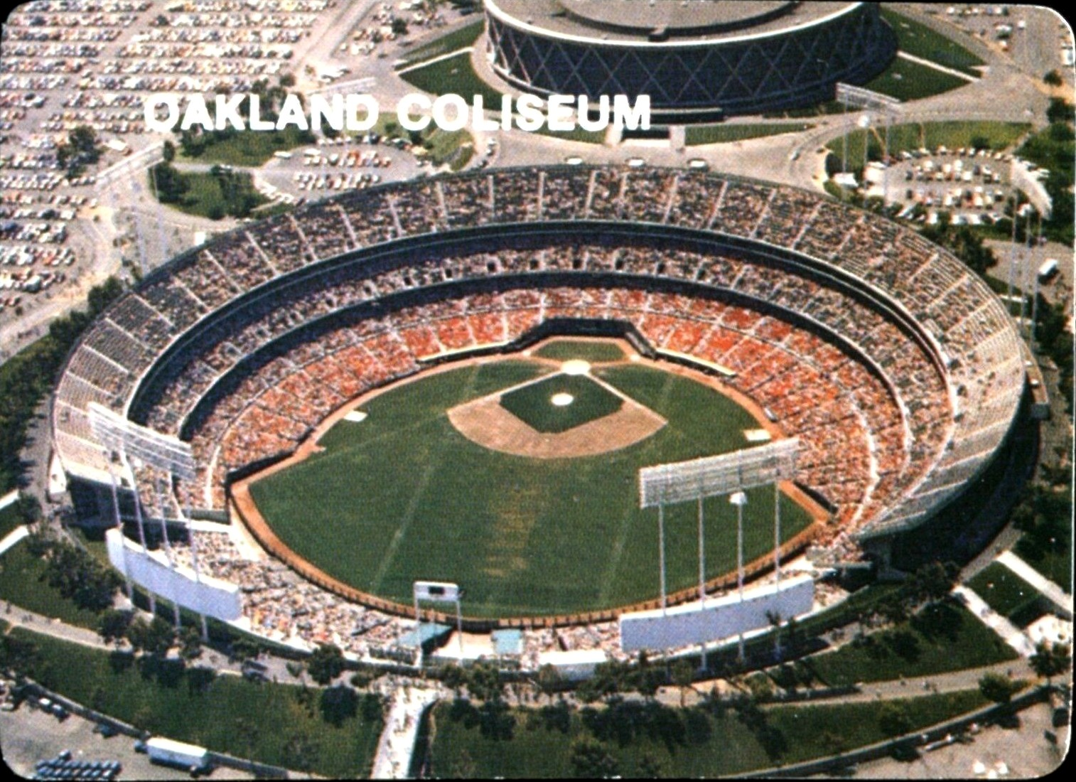 The checklist card of the 1984 Mother's Cookies Oakland Athletics trading cards set. An aerial photograph of the Oakland Coliseum appears on the front of the card and a checklist of all 28 of the trading cards in the set appears on the back. The card is numbered #28 in the set.